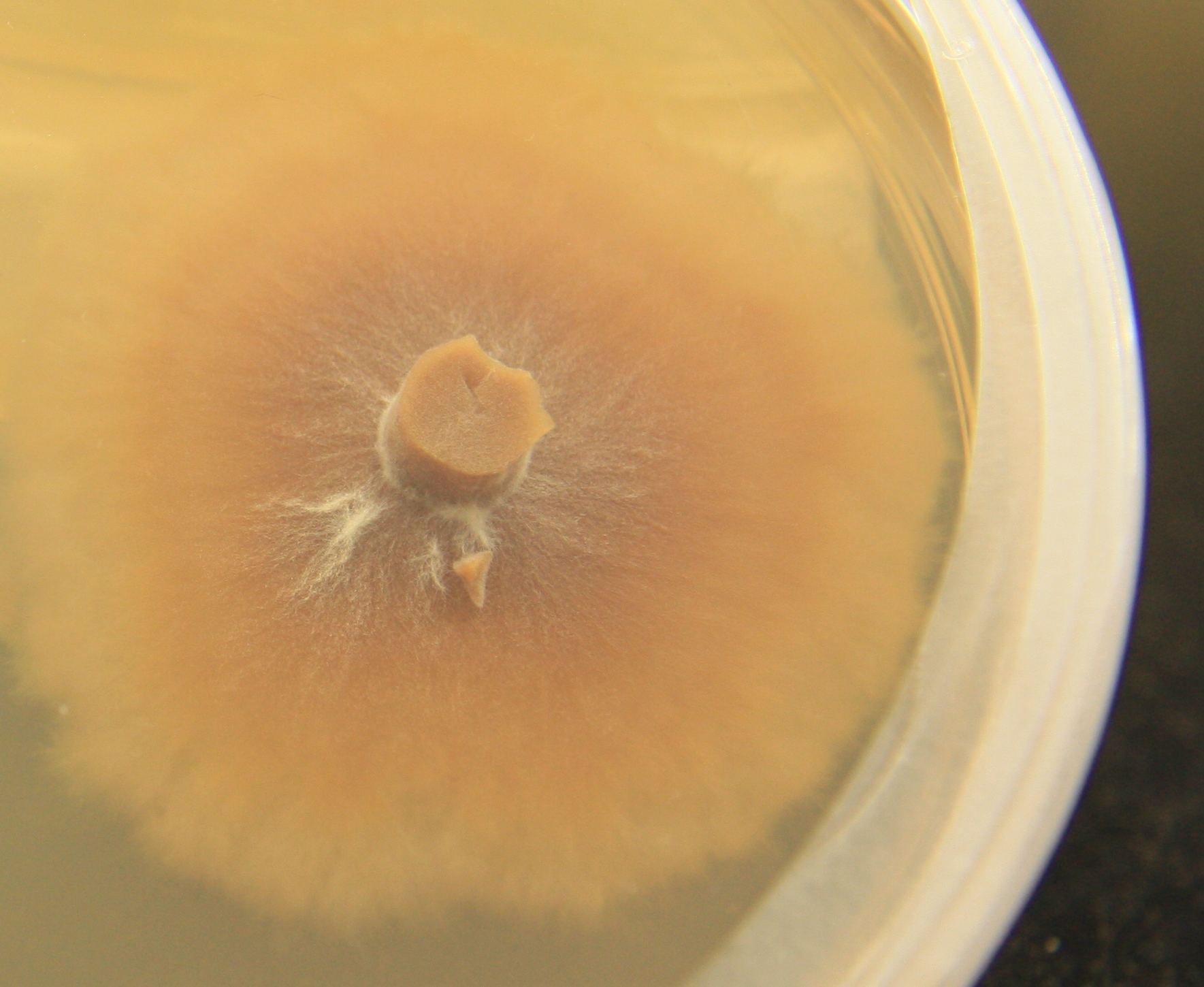 Mycelium of saffron milk cap (Lactarius deliciosus) in a Petri dish.